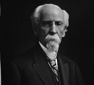 Personal Portrat of Captain Charles T. Hinde Circa